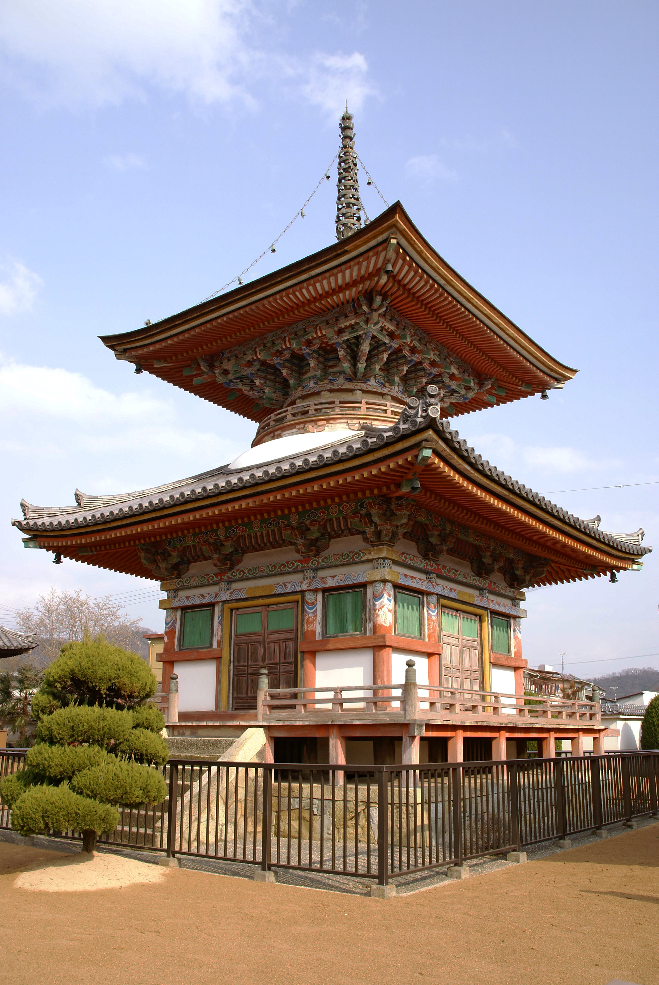 Sagamiji in Kasai, Hyogo prefecture, Japan